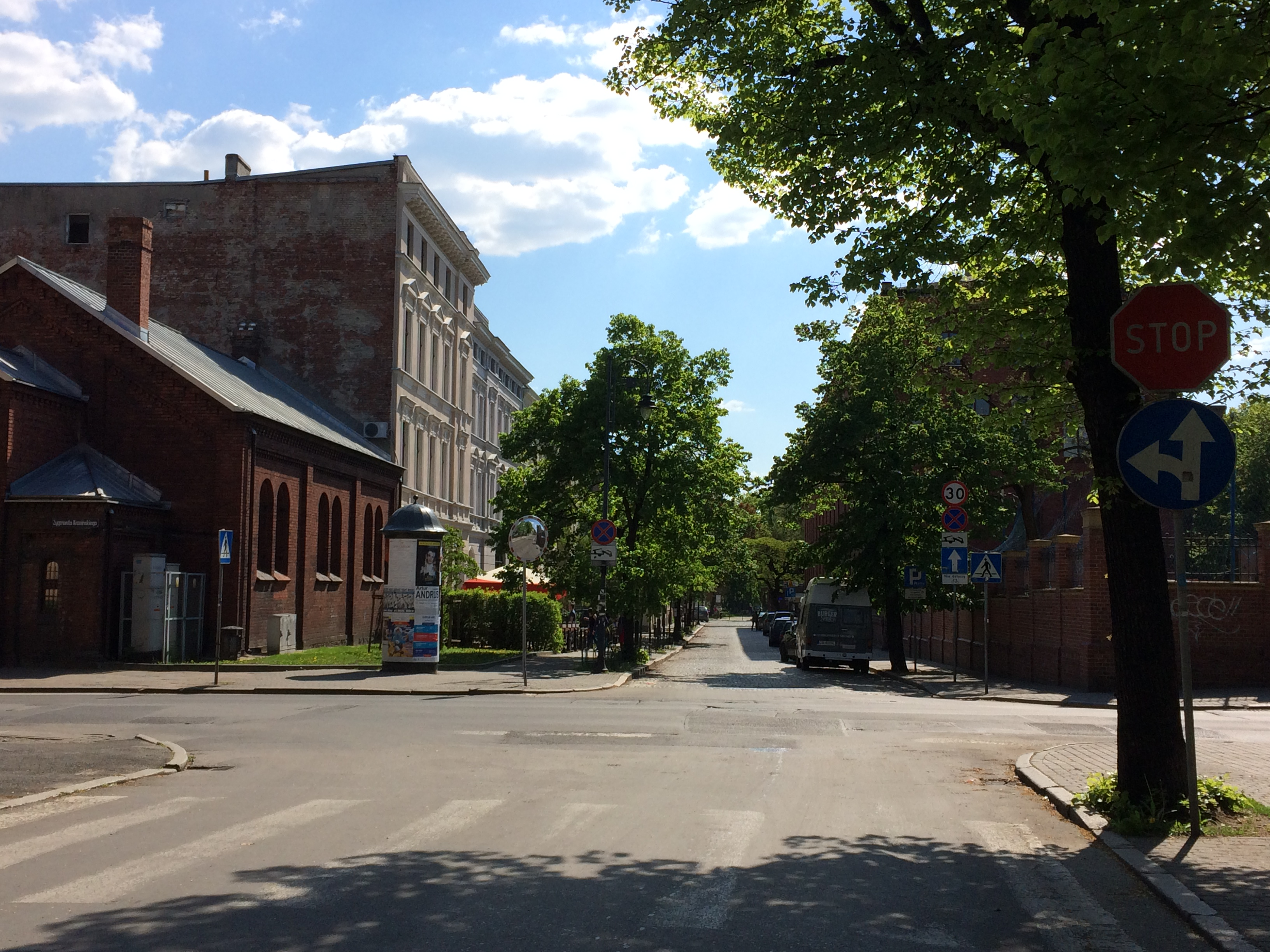 View of gimnalzja street